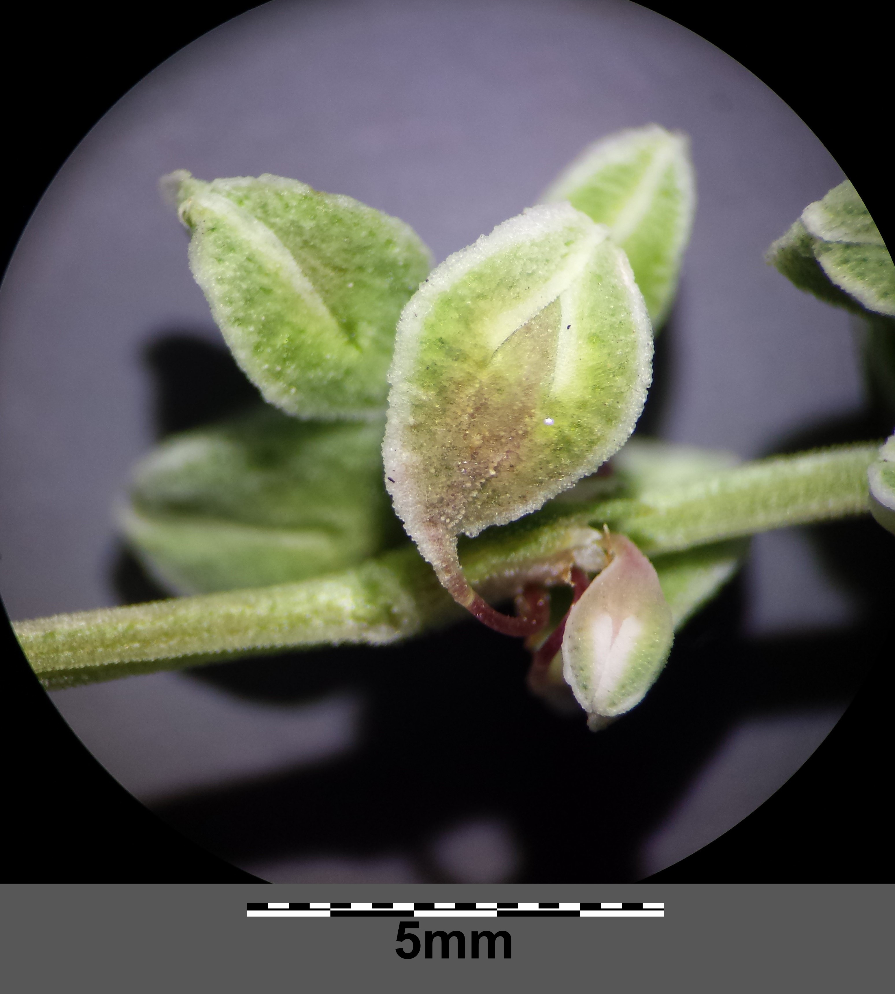 Fruits with perigone Taxonym: Fallopia convolvulus ss Fischer et al. EfÖLS 2008 ISBN 978-3-85474-187-9 Location: near Oberrohrbach, district Korneuburg, Lower Austria - ca. 200 m a.s.l. Habitat: fence